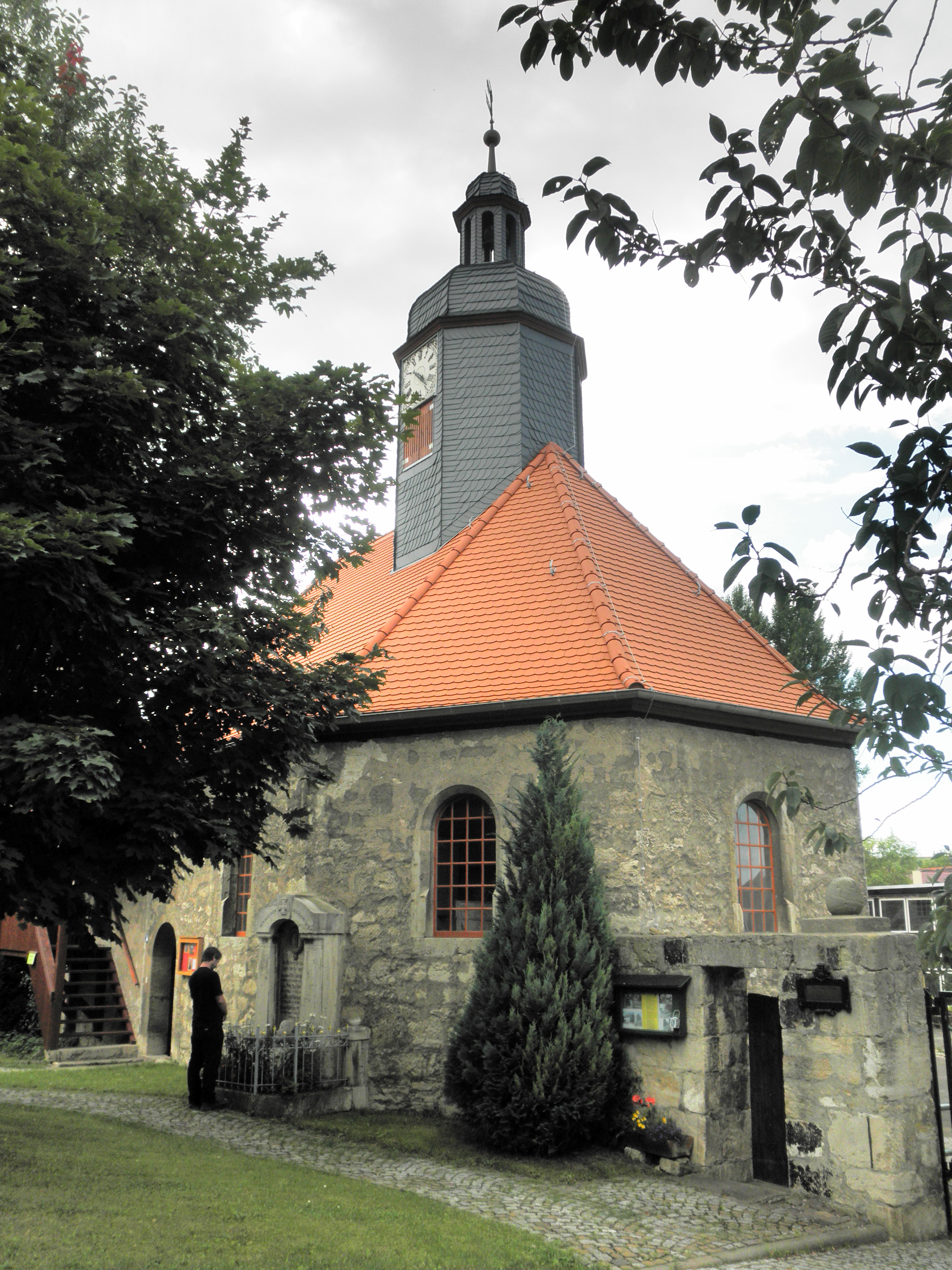 Church in Lehesten (bei Jena) in Thuringia